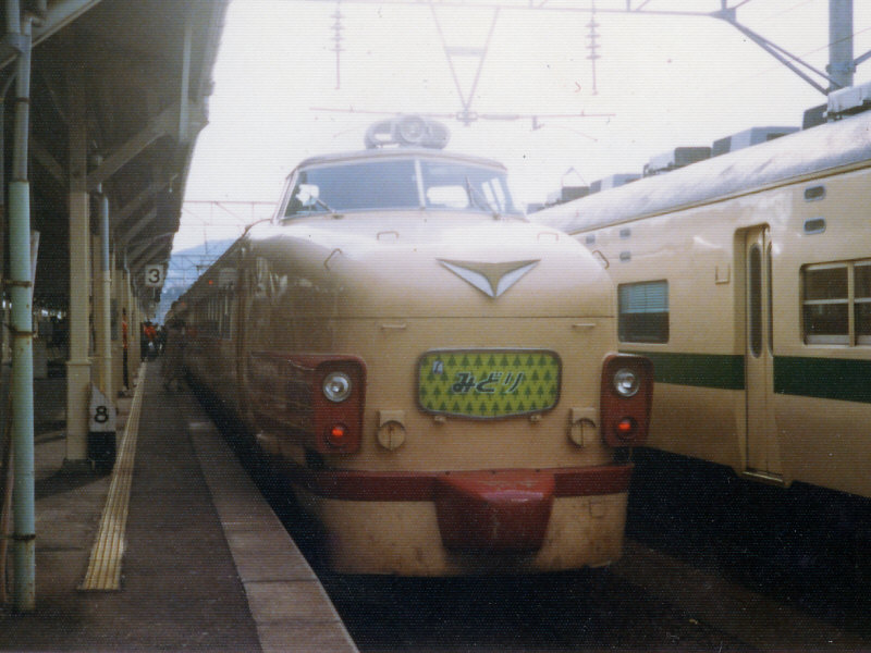 JNR 485 series EMU on a Midori limited express service at Sasebo Station